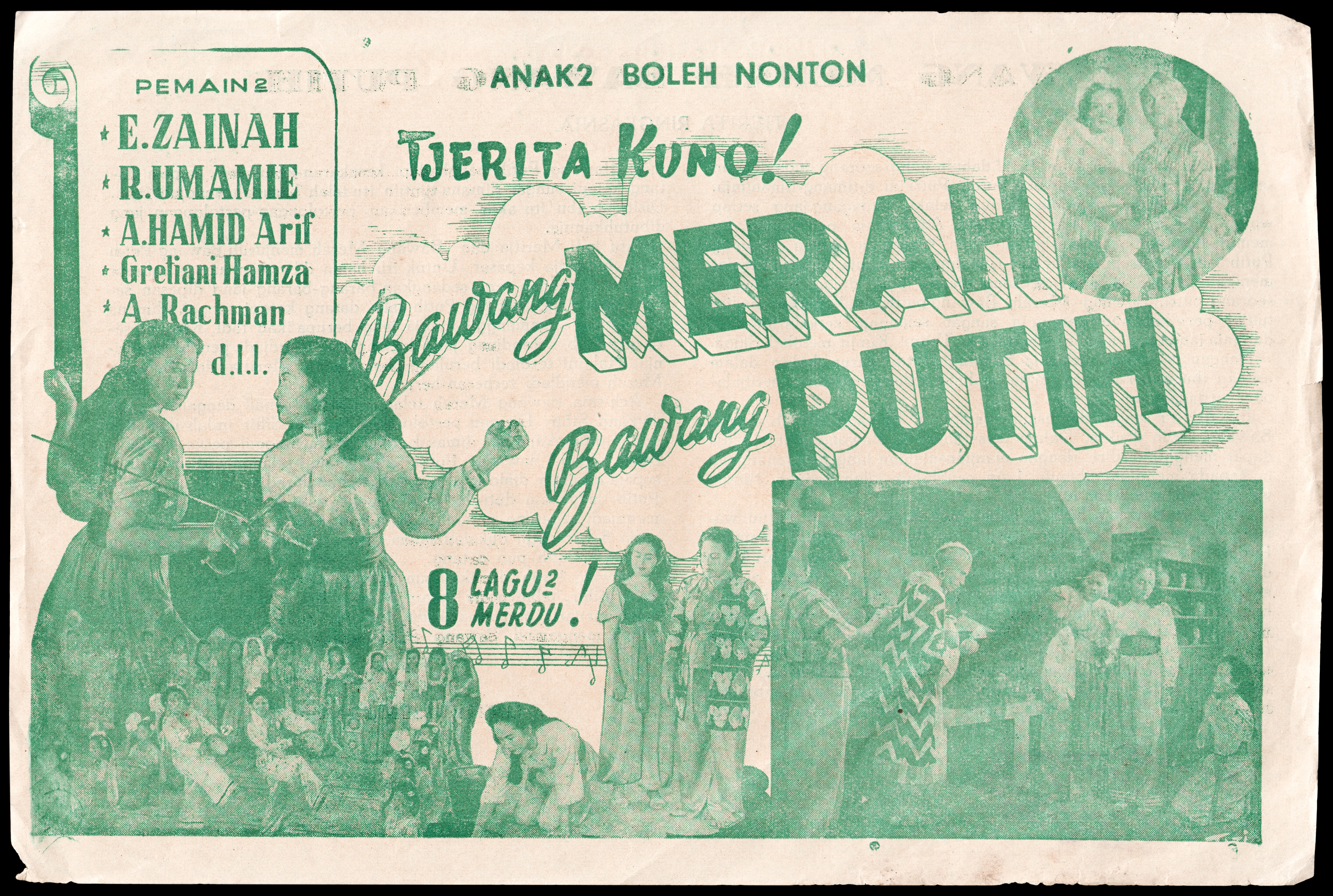 Bawang Merah, Bawang Putih, flyer for a 1953 film based on the Indonesian legend.